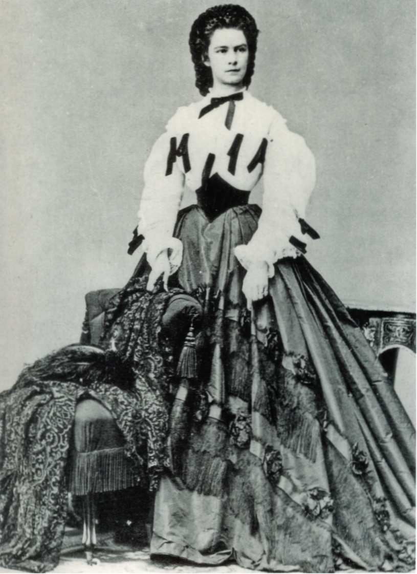 Empress Elisabeth of Austria